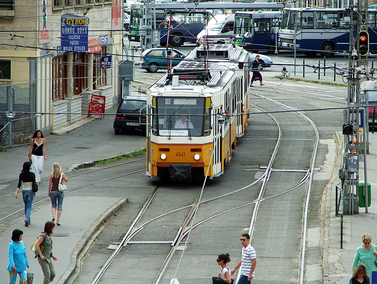 Tatra T5C5 trams in Budapest, Hungary